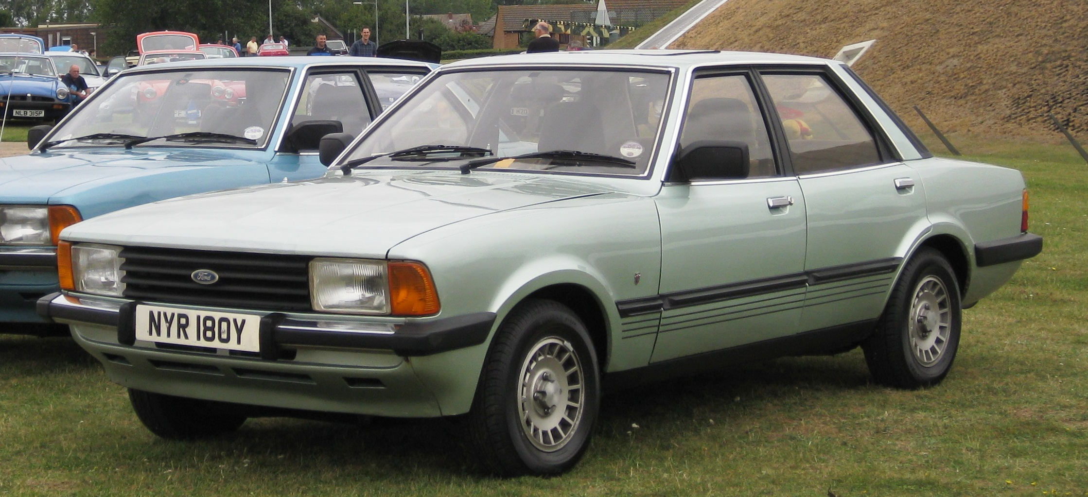 Ford Cortina MkV 2.3 Ghia at Classic car Show Duxford